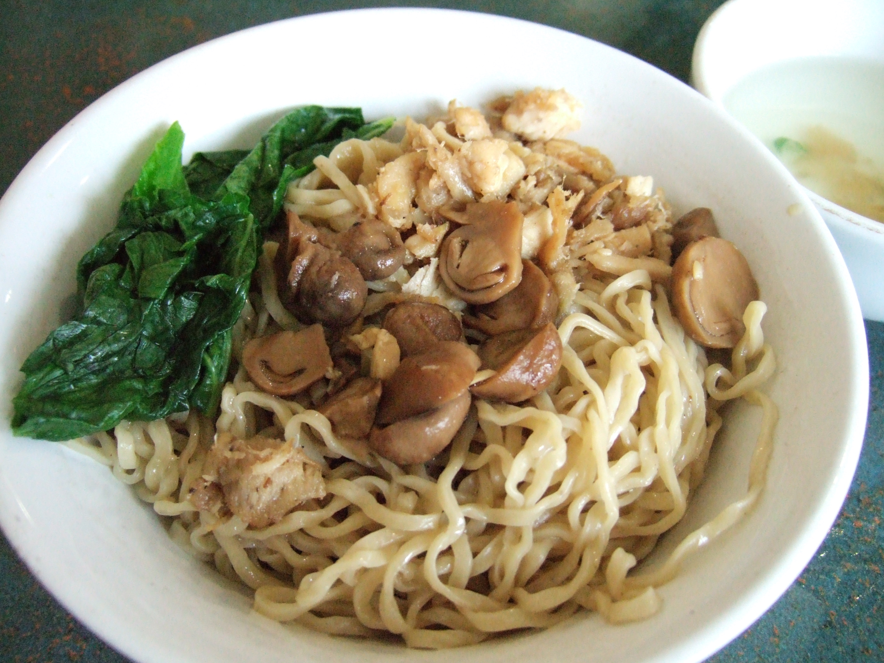 Chicken noodle with mushroom, picture taken in Jakarta, Indonesia